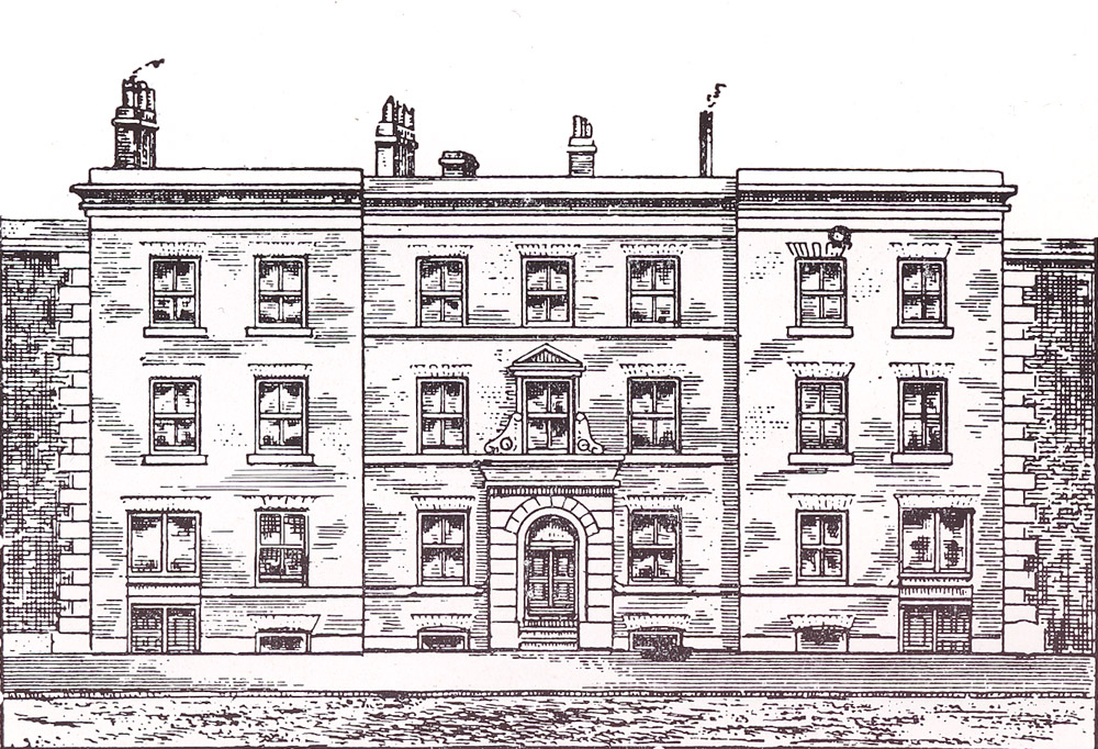 Manchester Mechanics' Institute, Cooper Street, UK (1825) Scanned from Shercliff WH. 'Manchester A Short History of its Development' Municipal Information Bureau, Town Hall, Manchester (1960). The date of the original (1825) means that the author's copyright has expired, and it is in the public domain.